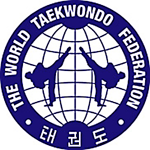 M.JOHN DE BRITTO,4th DAN BLACK BELT,NATIONAL REFEREE. SECRETARY,THANJAVUR DISTRICT TAEKWONDO ASSOCIATION. TAEKWONDO (WTF)OLYMPIC GAME it is a sports